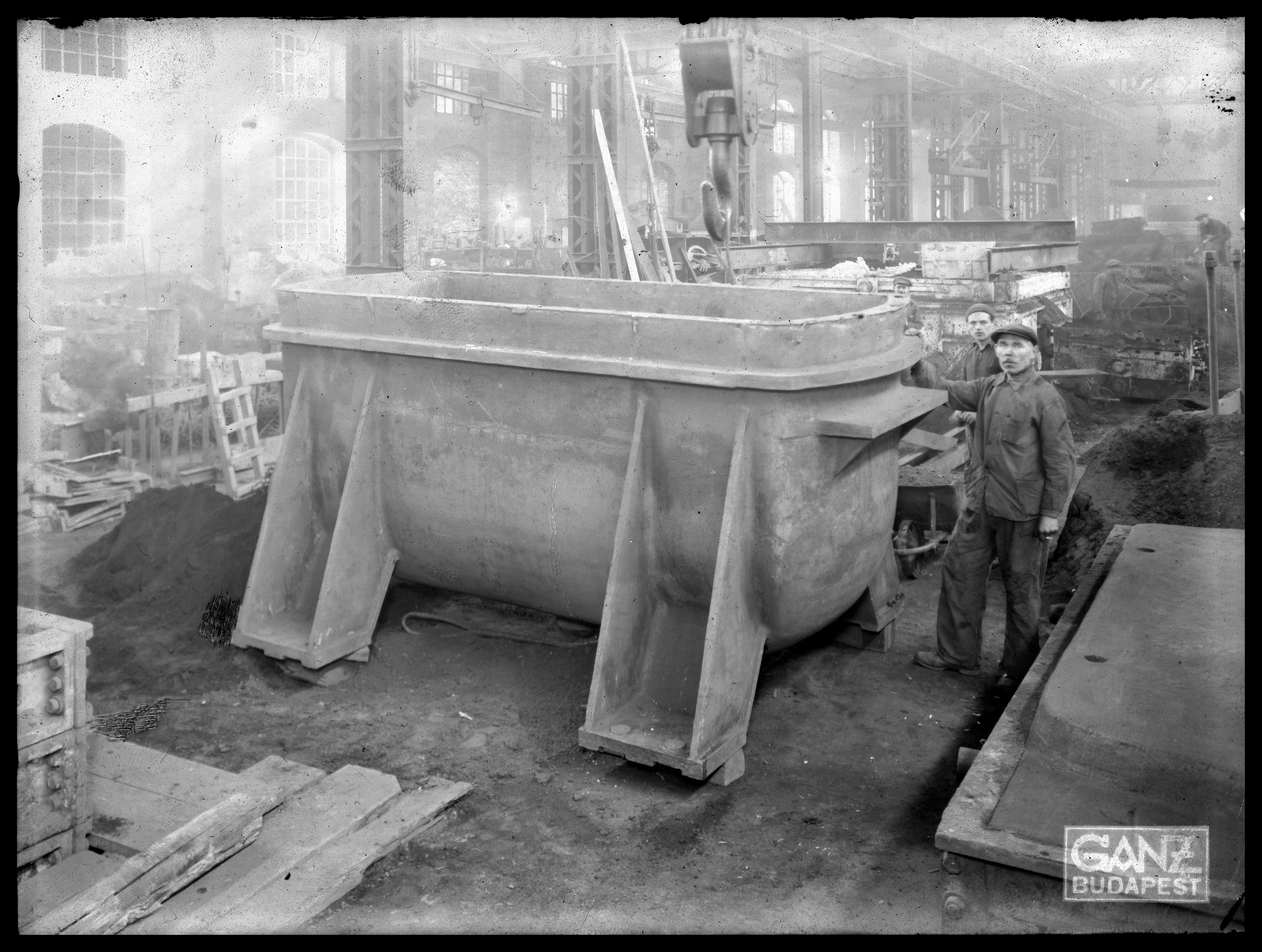 Published in Yotel 307 DVD, 1930, the assembly line of Ganz Budapest factory. Unknown hungarian photographer. Scan of the original glass platten, digitised by Elekes Andor. Size: 17 cm x 12 cm. Original data from glass plates I. G. Farbenindustrie AGFA Isocrom platten: Size: 13 cm x 18 cm. Ganz Budapest. Sighned on the paper holder of the glass plates: IX.1 – IX.10. Darabanth 282 Gyorsárverés 12268. (Scan from the paper photos under 1-10)